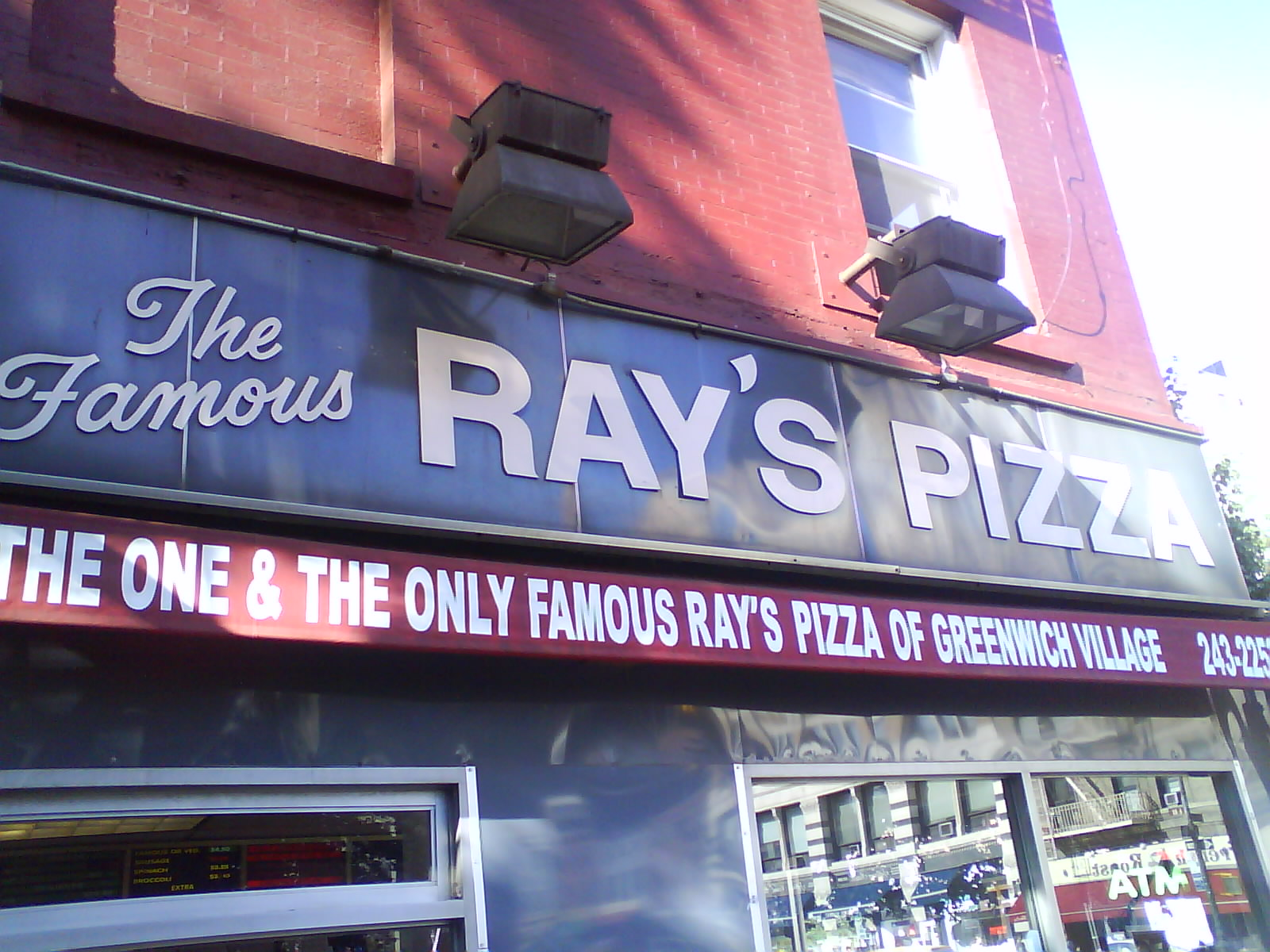 Famous Ray's Pizza on 6th Avenue and 11th Street in Manhattan, New York City.